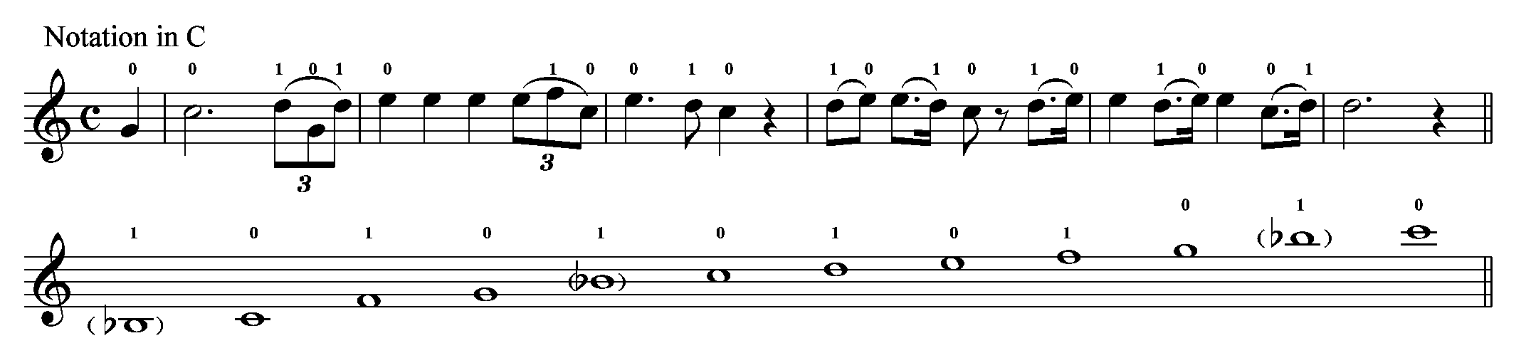 Solo for aida trumpet from Giuseppe Verdi's 1871 opera Aida, with fingerings